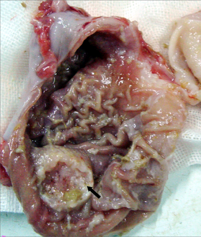 Gastric cancer in New Zealand rabbits (implanted). Two weeks after submucosal inoculation of VX2 tumor cells, pathological study after animal euthanasia shows typical ulcerative gastric cancer (arrow) in New Zealand rabbit.